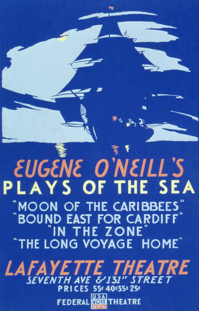 Poster for the Federal Theatre Project presentation of the four one-act plays that are now collectively titled S.S. Glencairn. The O'Neill cycle ran October 29, 1937 – January 15, 1938, at the Lafayette Theatre. (Hallie Flanagan, Arena page 428). This presentation is titled Plays of the Sea; more information.